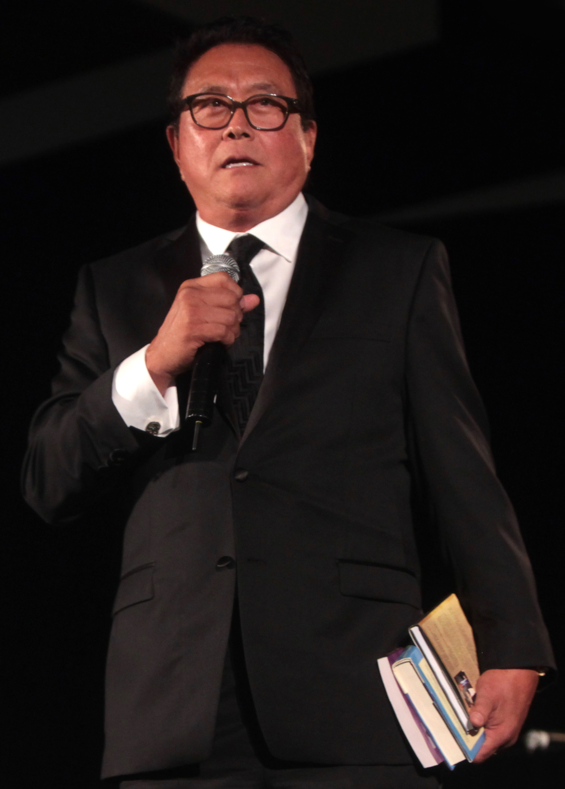 Robert Kiyosaki speaking in Phoenix, Arizona.